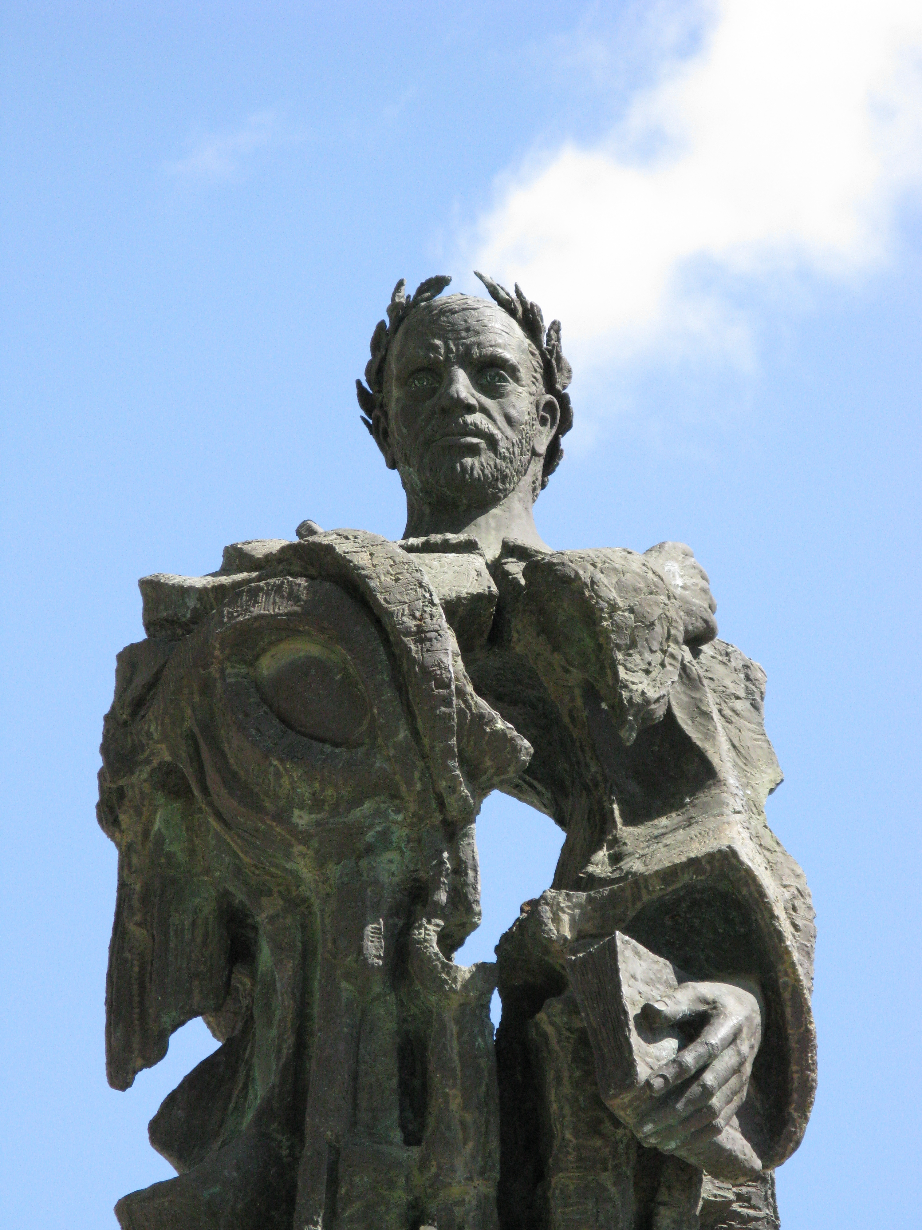 Rodrigo Caro's statue. (Utrera, Sevilla, 1573 - † Sevilla, 10 August 1647) Spanish writer.